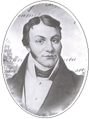 Hryhoriy Kvitka-Osnovyanenko